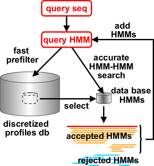 Scheme of HHblits software for searching biological sequences